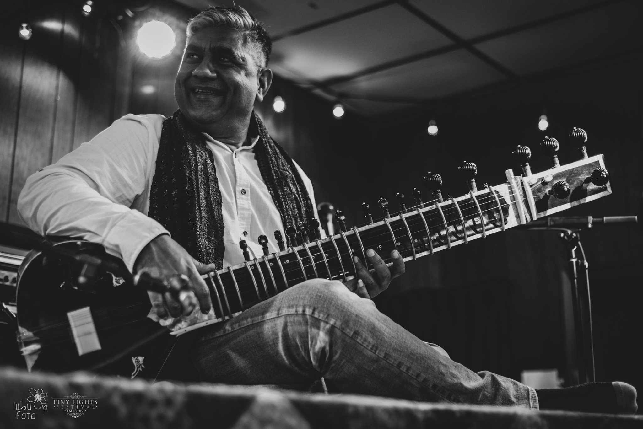 Mohamed Asani Live